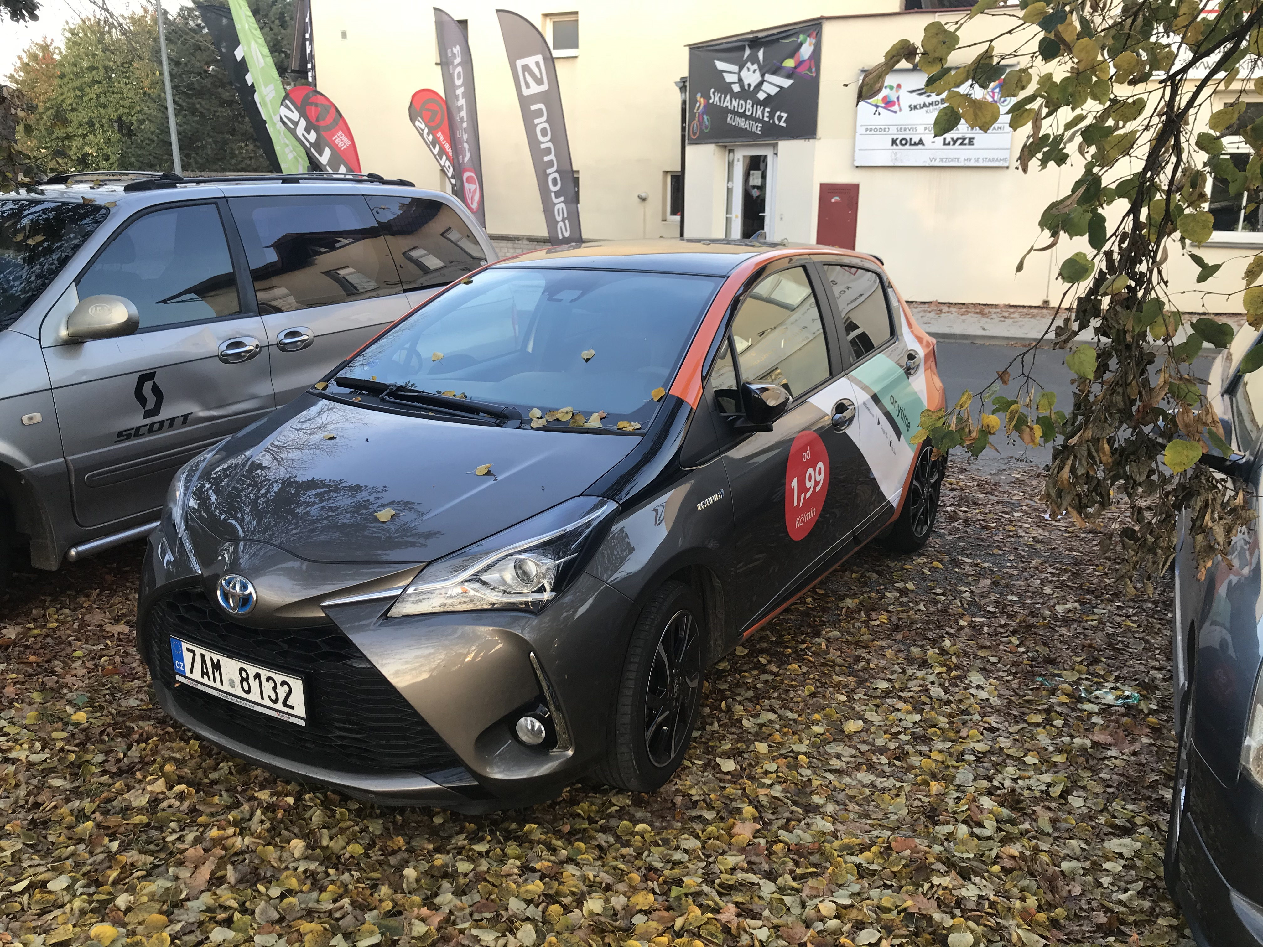 Toyota Yaris Hybrid of Anytime carsharing company in Prague 4